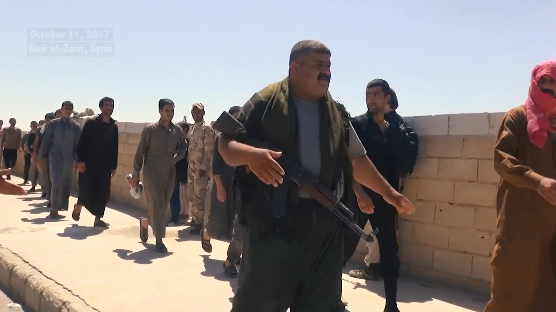 ISIL fighters who surrendered to the YPG during the Deir ez-Zor offensive in October 2017.